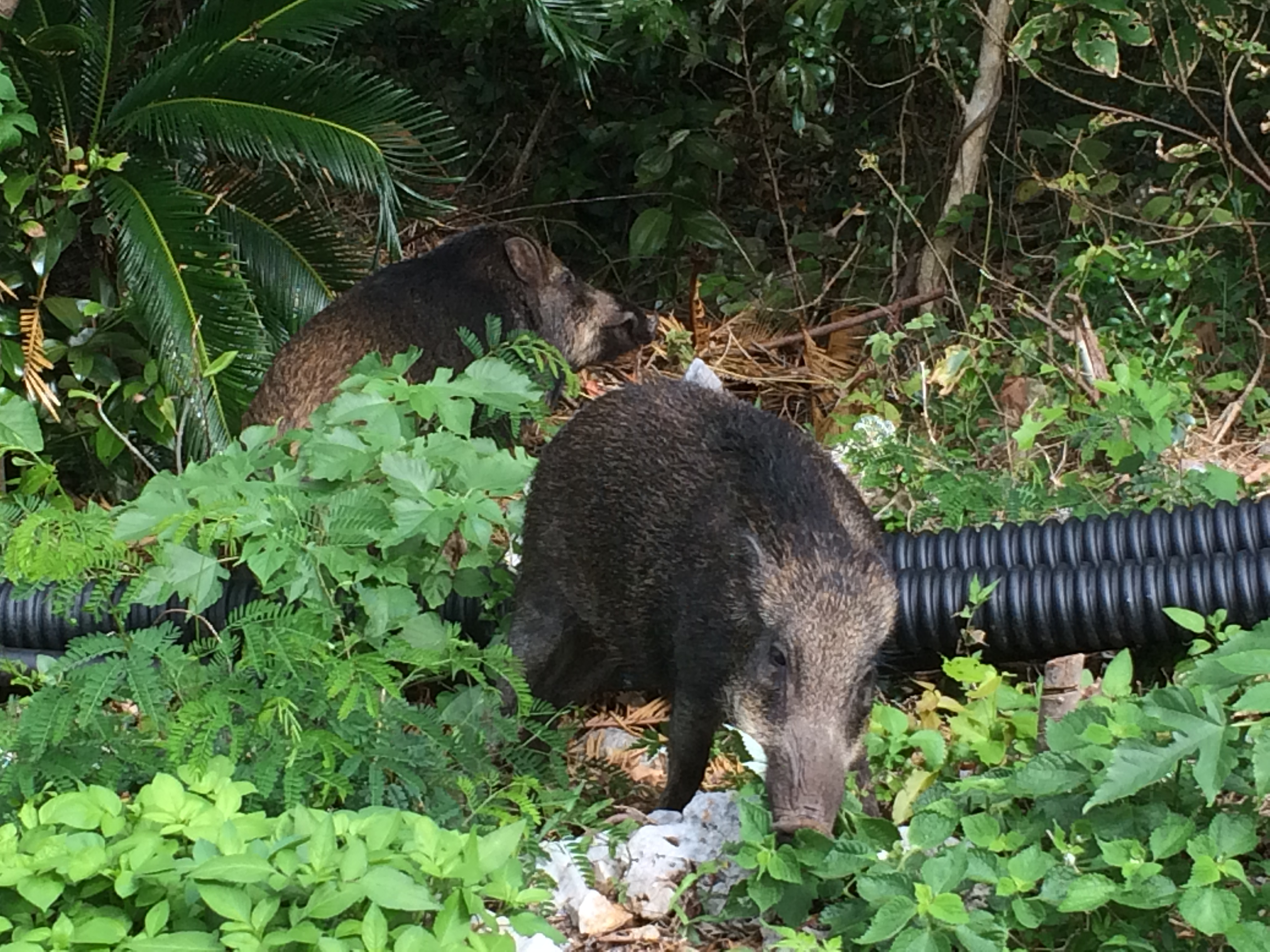 Sus scrofa riukiuanus, Ryukyu wild boar, at Daisekirinzan